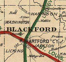 This is the Blackford County portion of an 1896 map created by the Indiana State Board of Tax Commissioners and on file in the Library of Congress